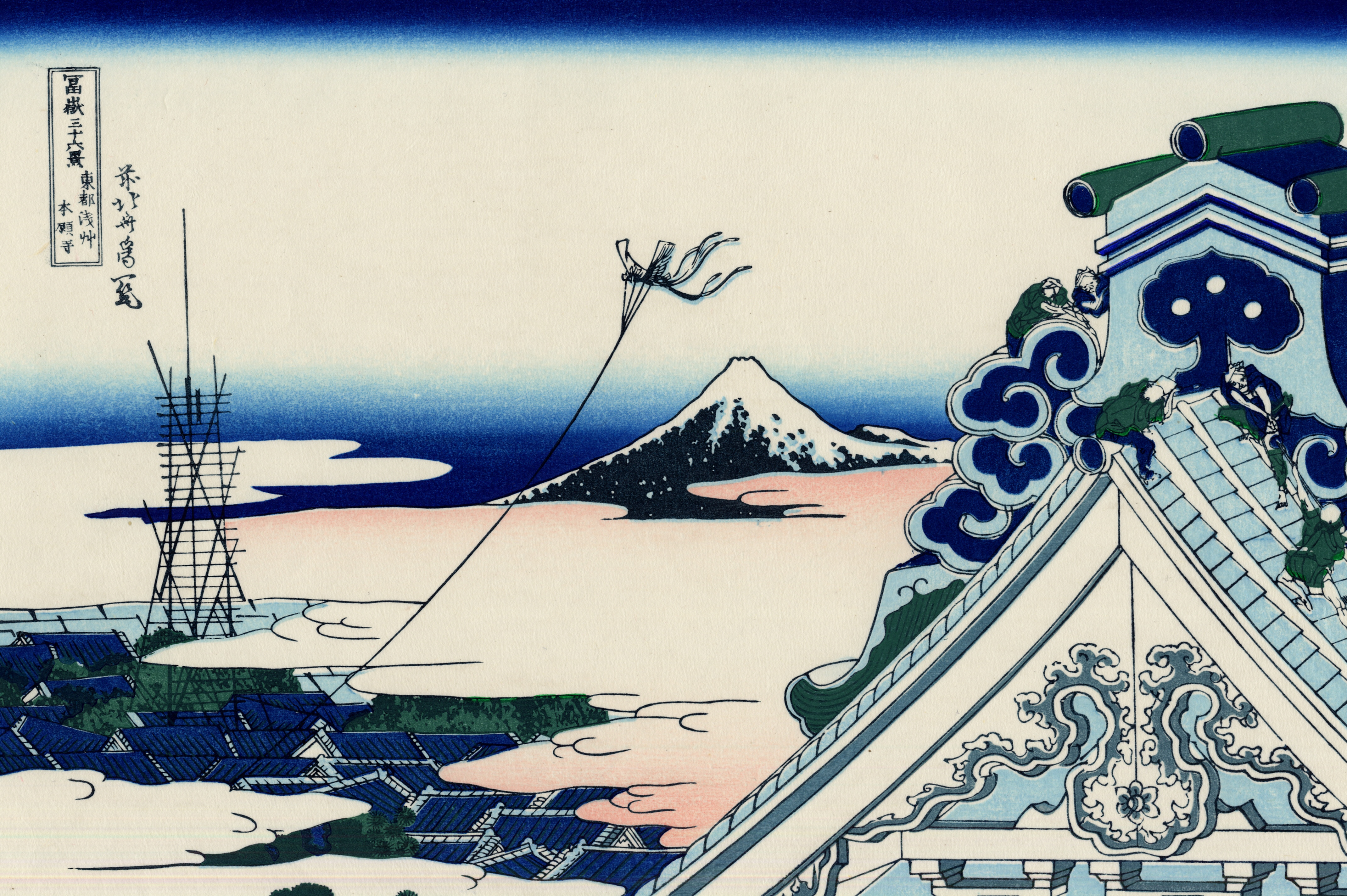 Part of the series Thirty-six Views of Mount Fuji, no. 04.